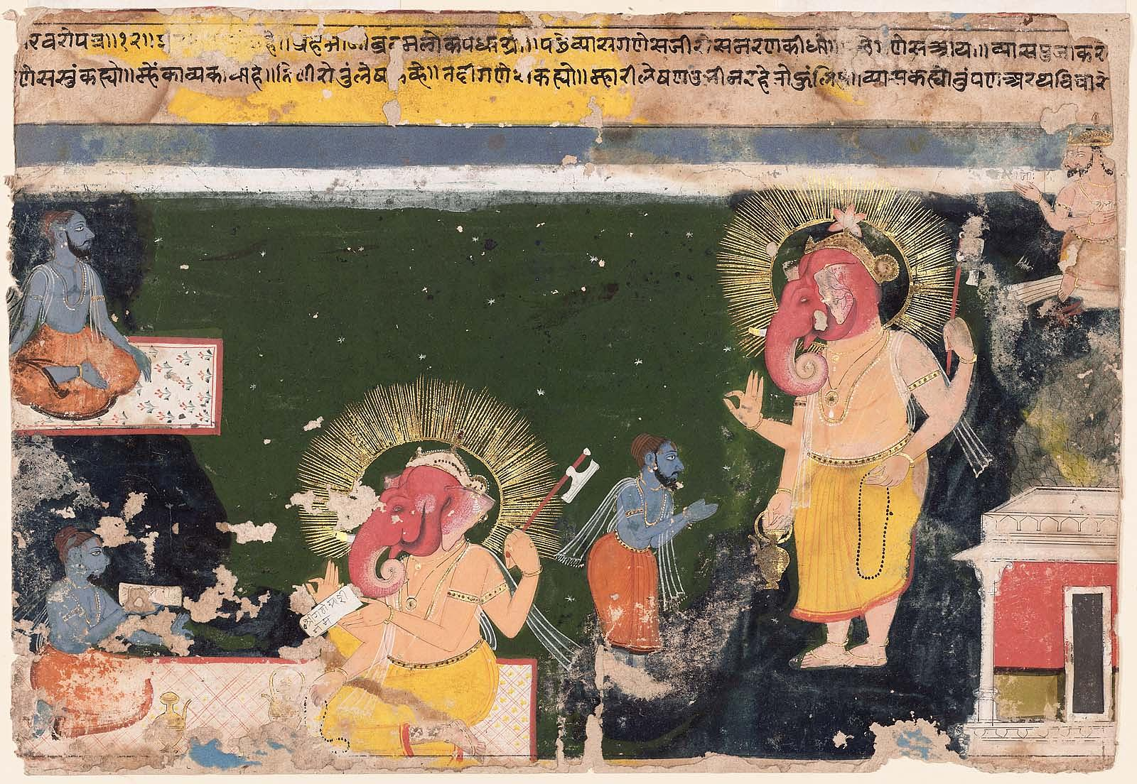 Ganesa writing the Mahabharat, dictated by Vyasa. Page from an illustrated manuscript of the Mahabharata. Not on view